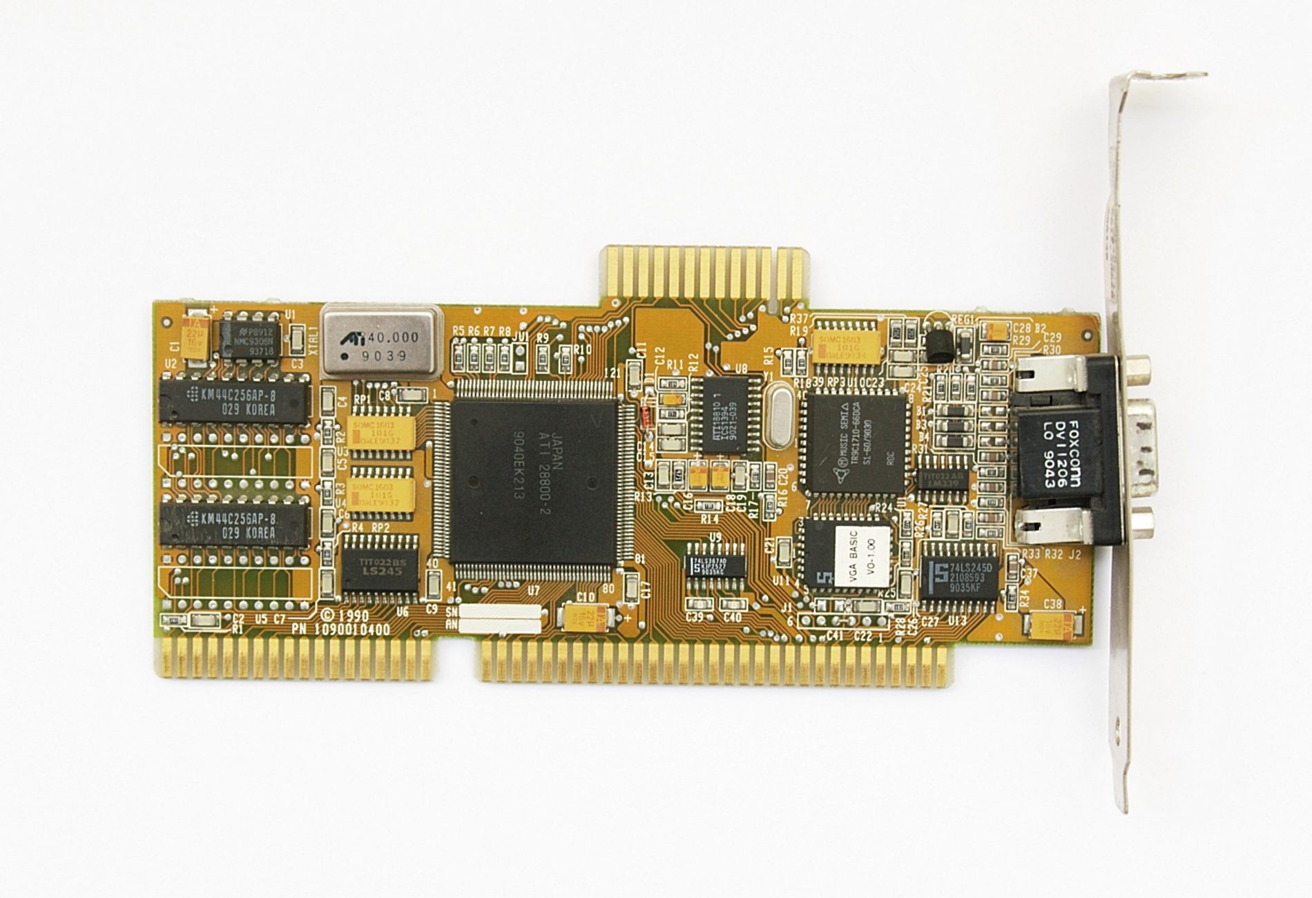 ATI VGA Wonder+ with 256 KB RAM. ATI 28800-2